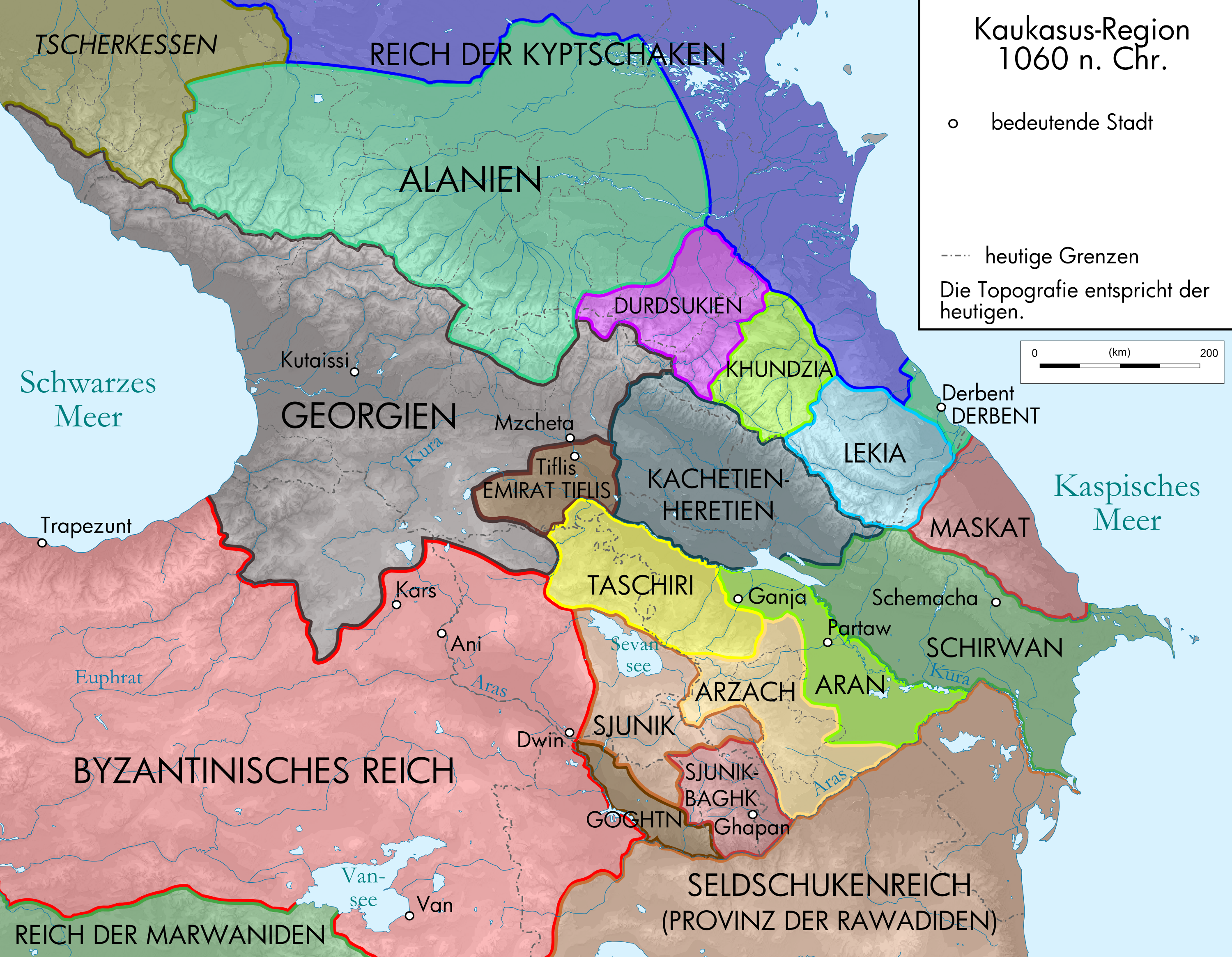 Map of Caucasus Region around 1060 AD in German.